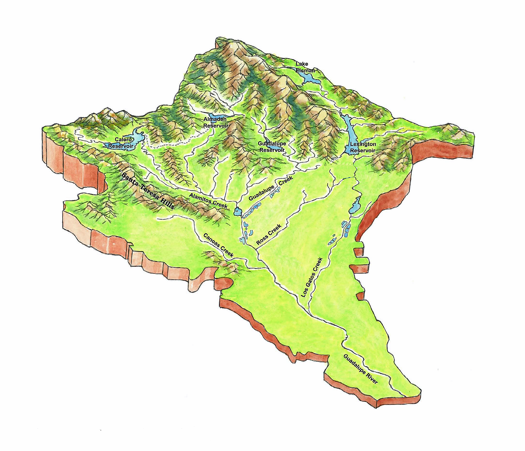 From the 2005 Guadalupe River Watershed Mercury TMDL Project, modified from USGS Topo Map